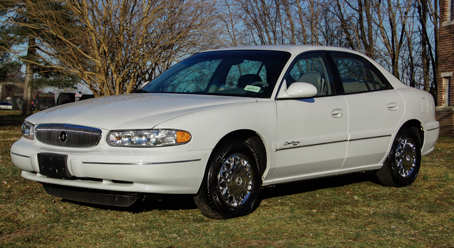 2000 Buick Century, in Limited trim, photographed in U.S.A. This model is white over gray leather, and equipped with the Buick LG8-Series V6.